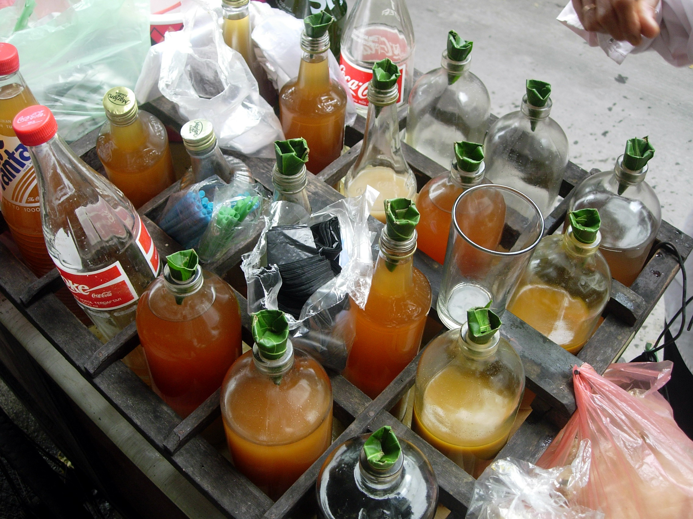 Bottles containing Jamu, traditional herbal medicine from Indonesia and Malaysia.This photo was taken in Solo, Java